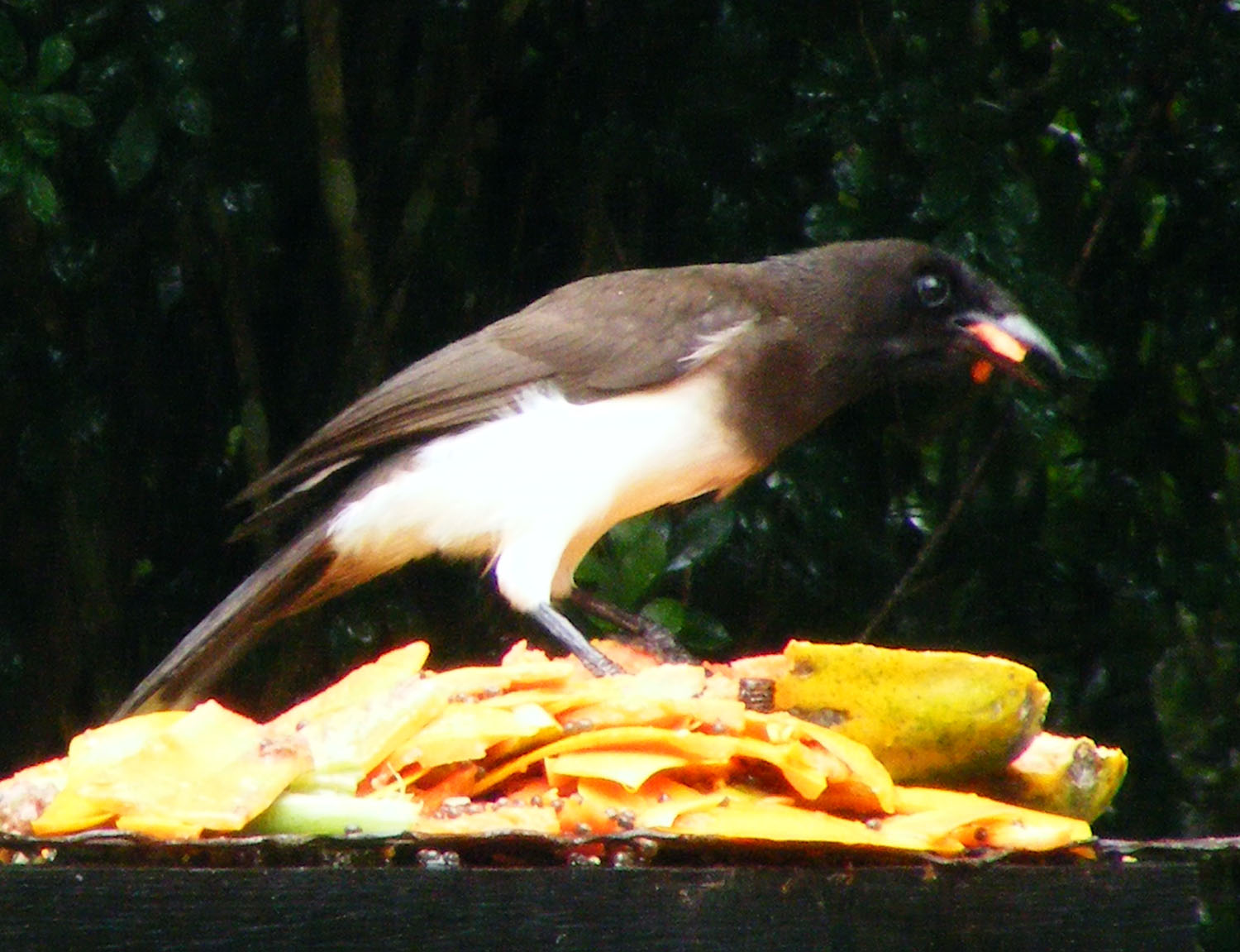 Brown Jay Psilorhinus morio, San Ignacio (Crystal Paradise), Belize